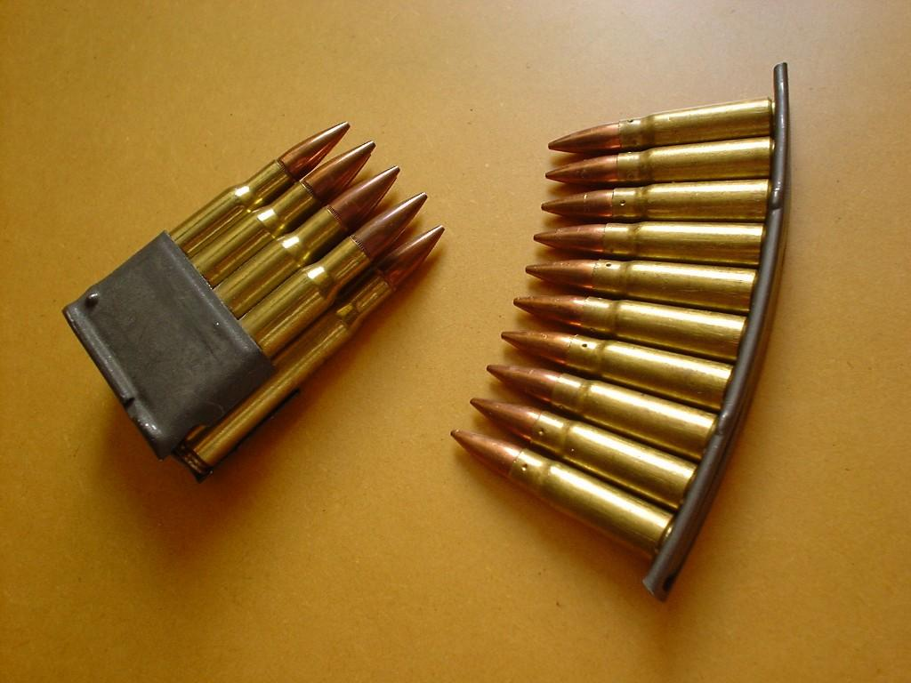 Clip for M1 Garand x8rd and SKS x10rd.